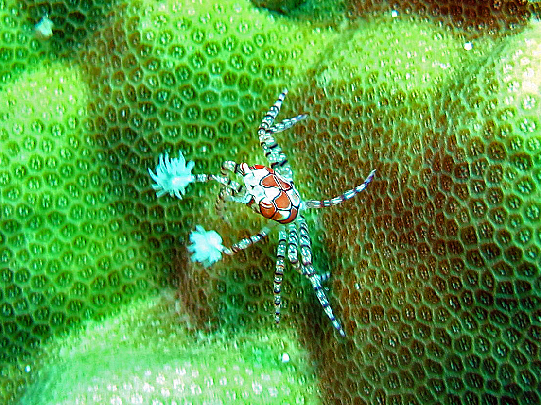 Lybia tessellata. Bunaken, Sulawesi, Indonesia